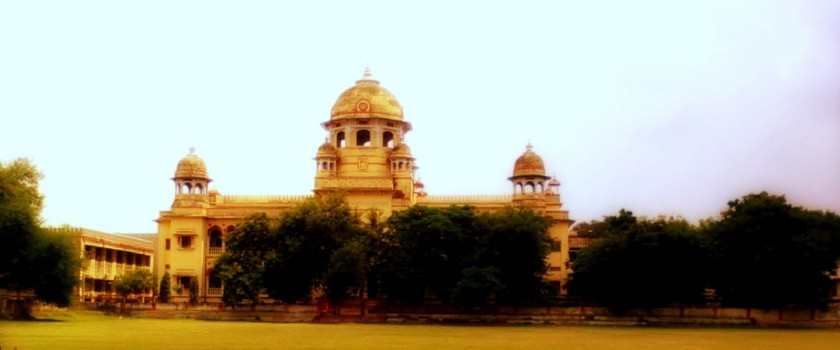 Department as seen from AU ground